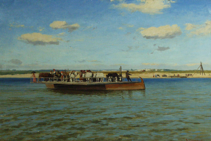 A ferry over the Dnieper River